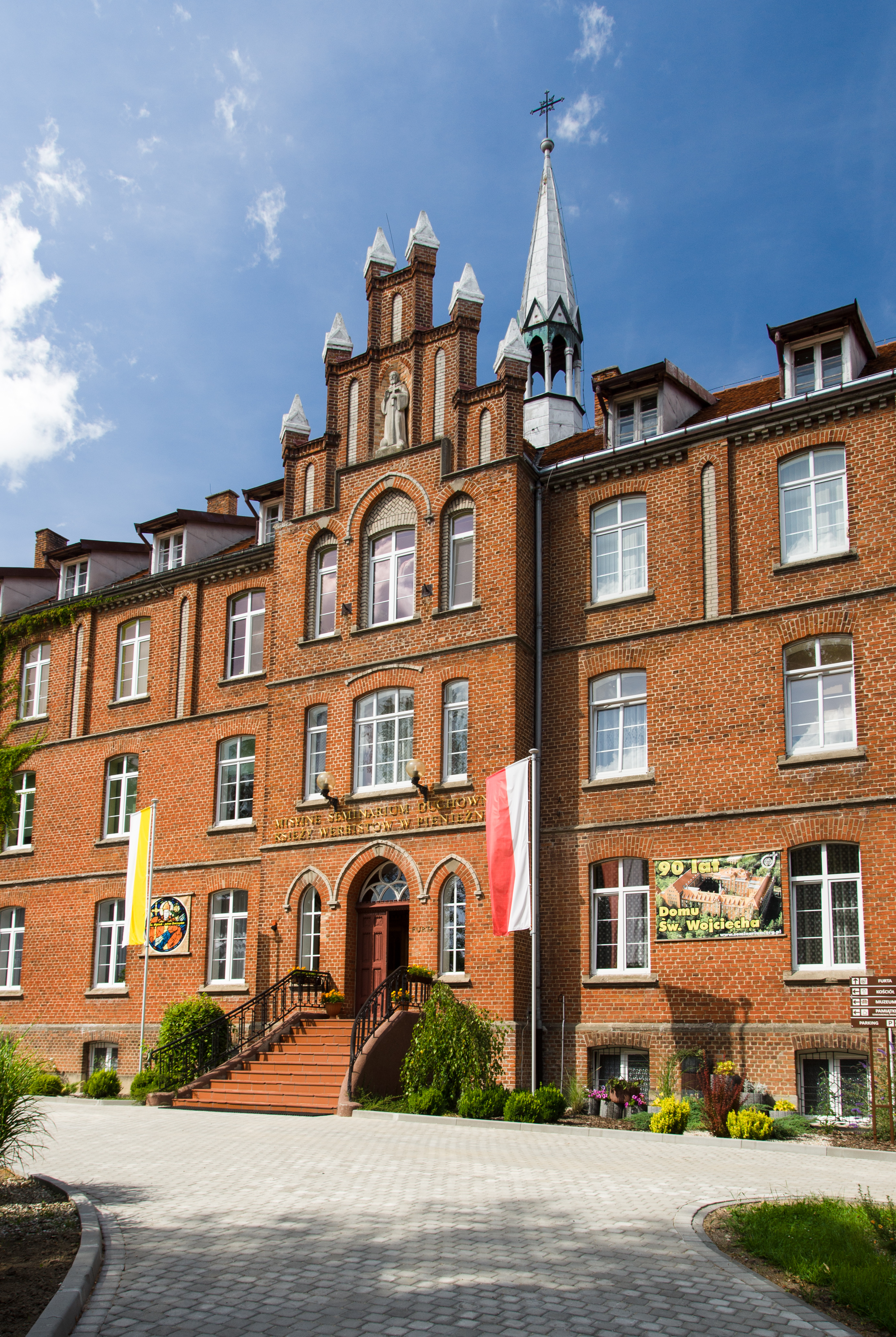 Divine Word Missionaries Seminary in Pieniężno, Poland.